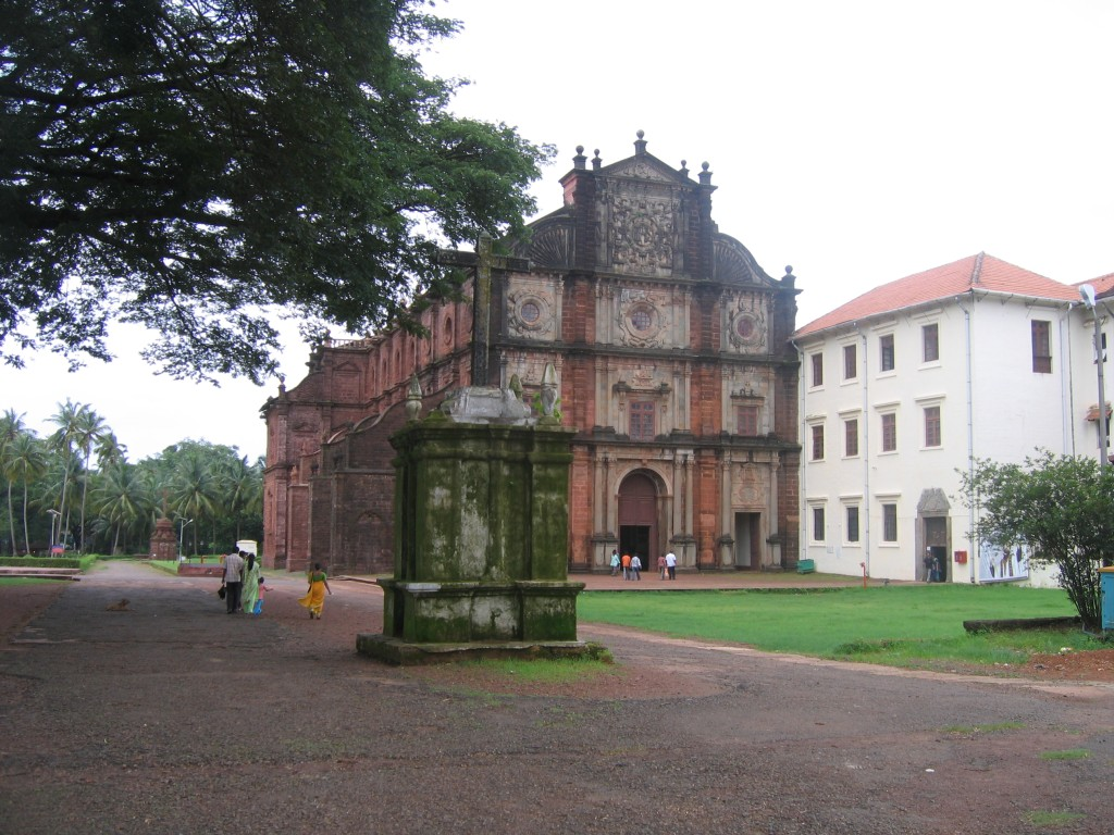 Basilica of Bom Jesus, Old Goa, taken in July 2006.